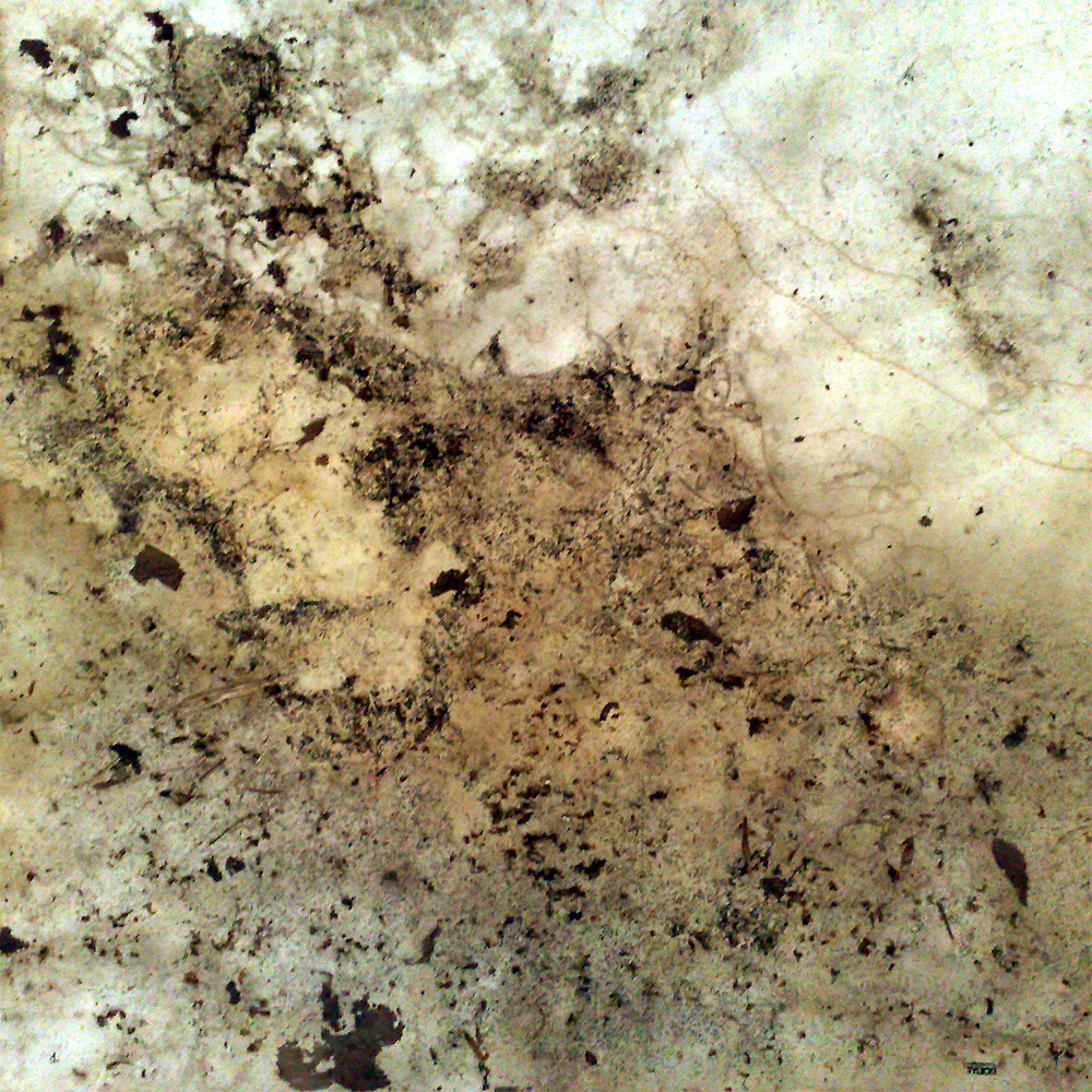 Natural Art Nr. 1. Created by Nature. 4 days in the grass of the meadow. S.W. of Lund. Sweden Size: 460 X 460 mm. 16/07 - 20/07 1973